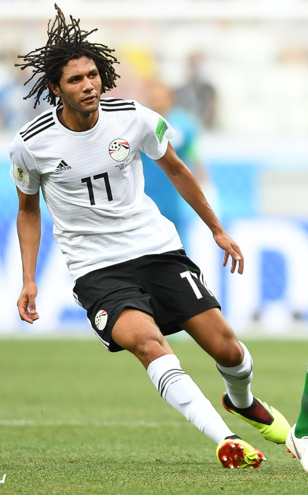 Mohamed Elneny